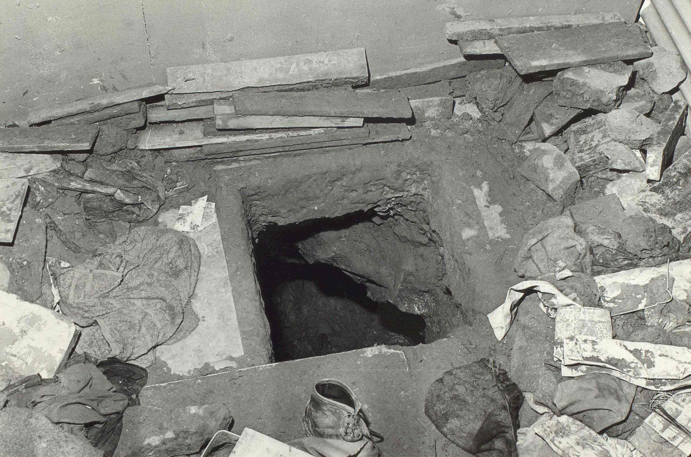 PRONI Ref: RUC/12/59/1 Digital Image Ref: RUC_12_59_1~004~A Photograph four of nine dating from 6th November 1974, when 33 prisoners attempted to escape from HM Prison Maze through a tunnel which they had dug. IRA member Hugh Coney was shot dead by a sentry, 29 other prisoners were captured within a few yards of the prison, and the remaining three were back in custody within 24 hours. This image is taken from an album from the Royal Ulster Constabulary archive collection which contains 16 images of this escape incident.